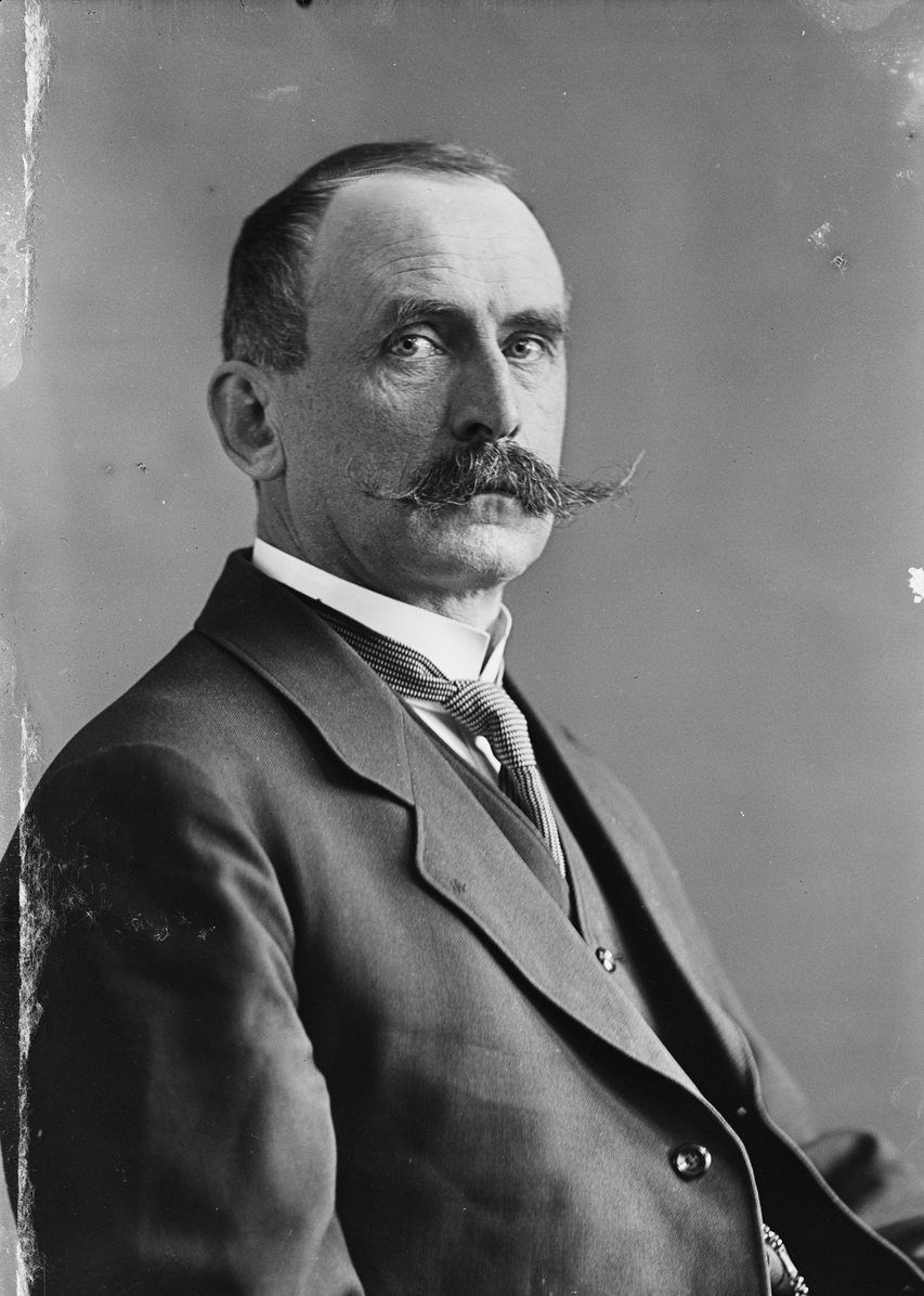 Eivind Saxlund (1858 – 1936), a Norwegian lawyer remembered for his anti-Semitic literature. Photo by Ernest Rude (1871 – 1948).